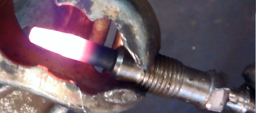 This is a picture that I took of my glowplug out of my Peugeot 306 TDI being heated up by a 12 Volt Booster Pack. The glow plug is glowing white hot. I thought thaat it would be good on the glowplug page